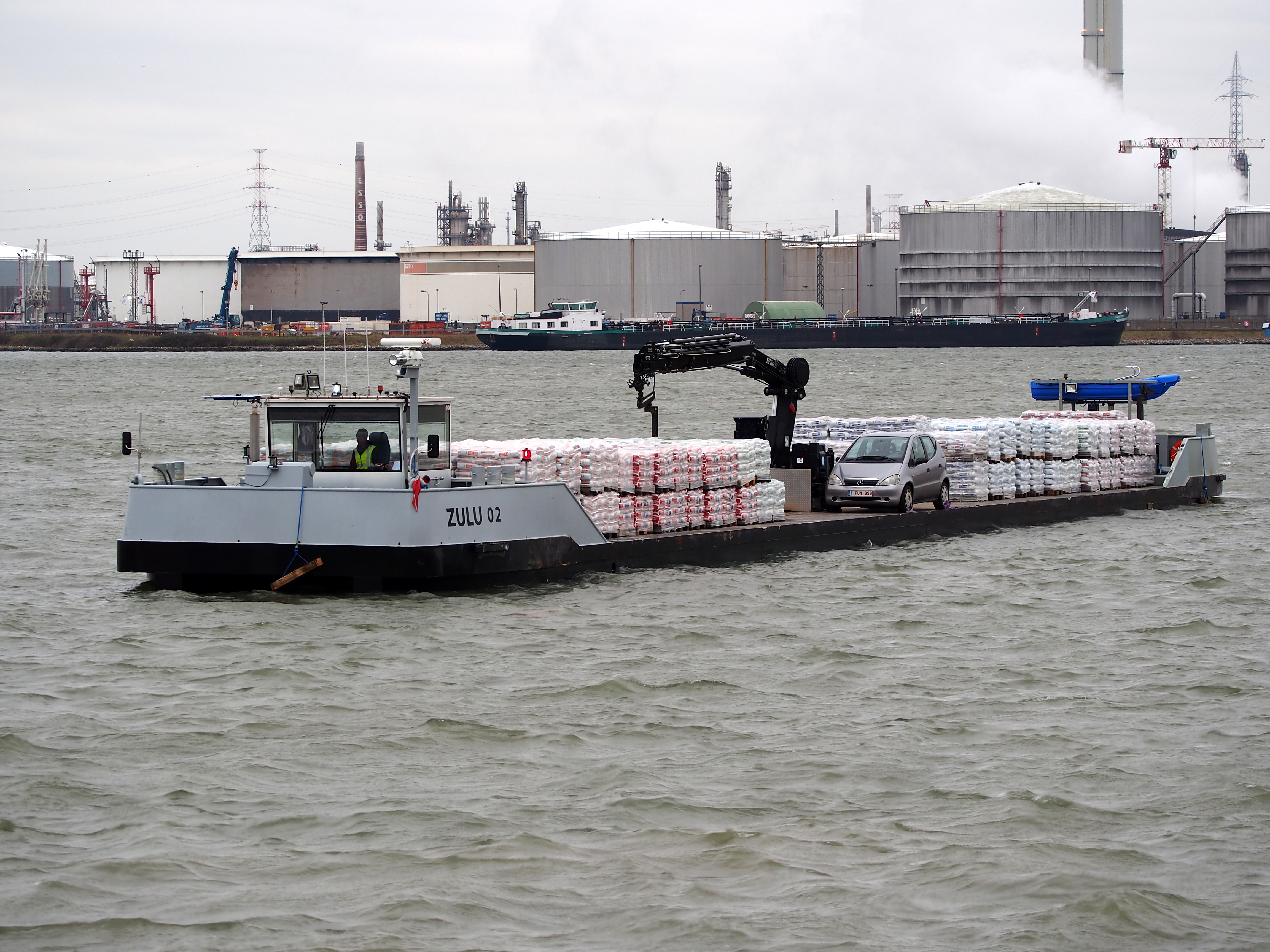 Zulu 02 (ship, 2015) Port of Antwerp.